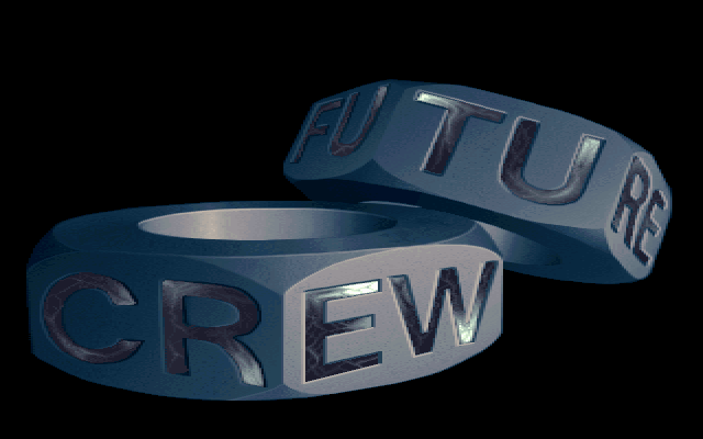 image from the demo second reality, brought to public domain in 1 August 2013 (